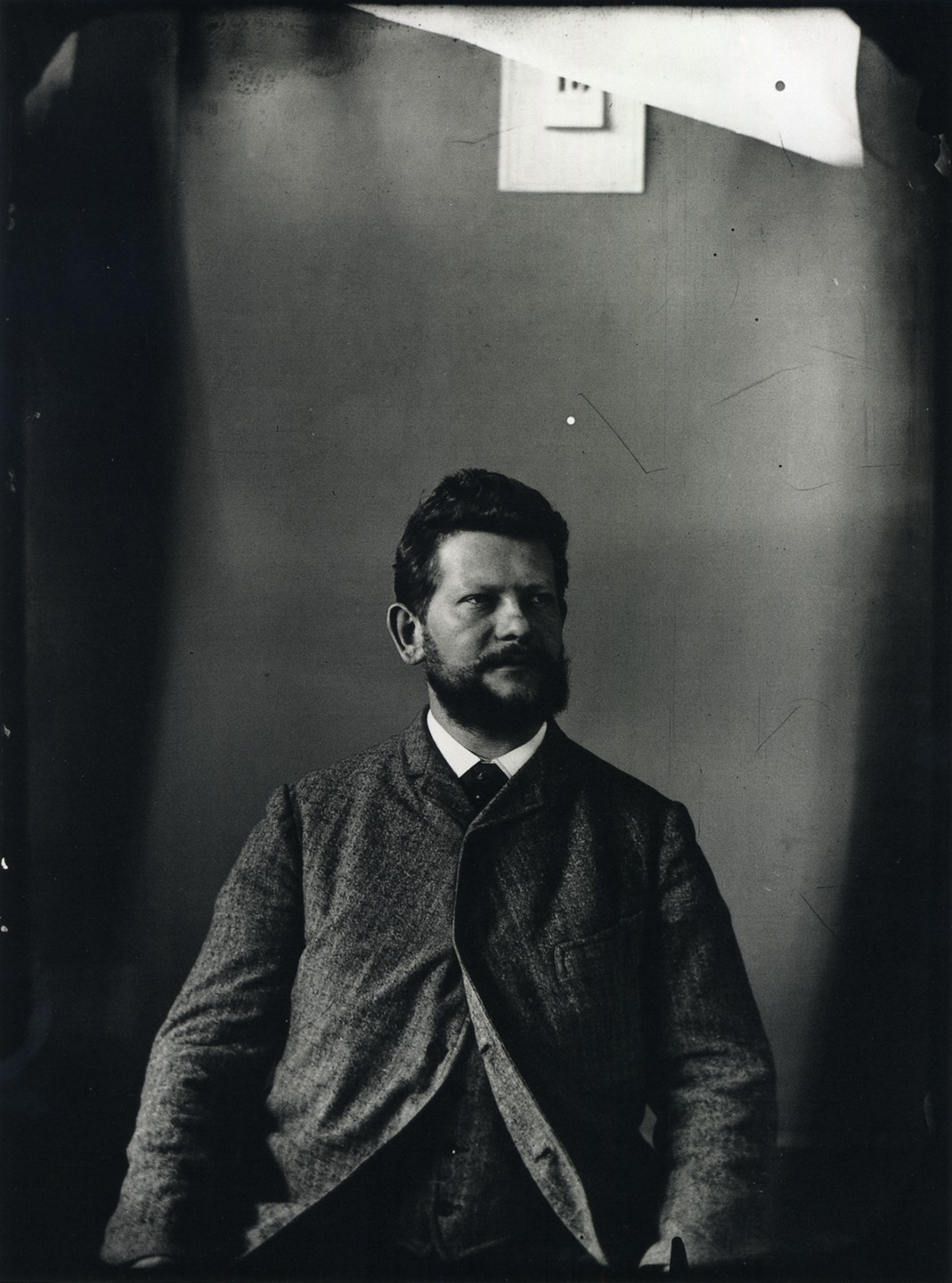 Selfportrait